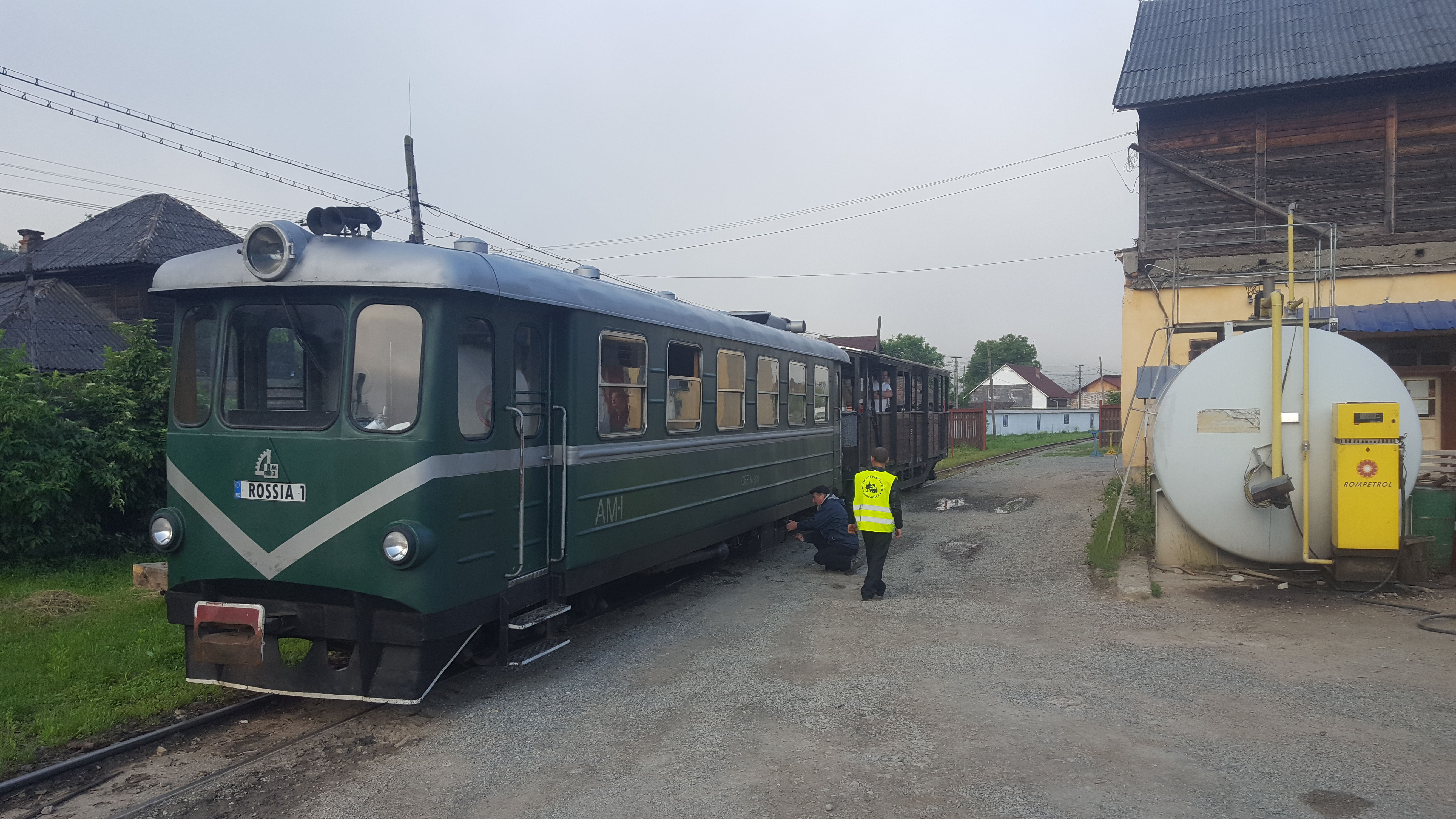 A diesel railcar "Rossia 1" at a station "Fabrica trei" of a narrow-gauge railway in Viseu de Sus.